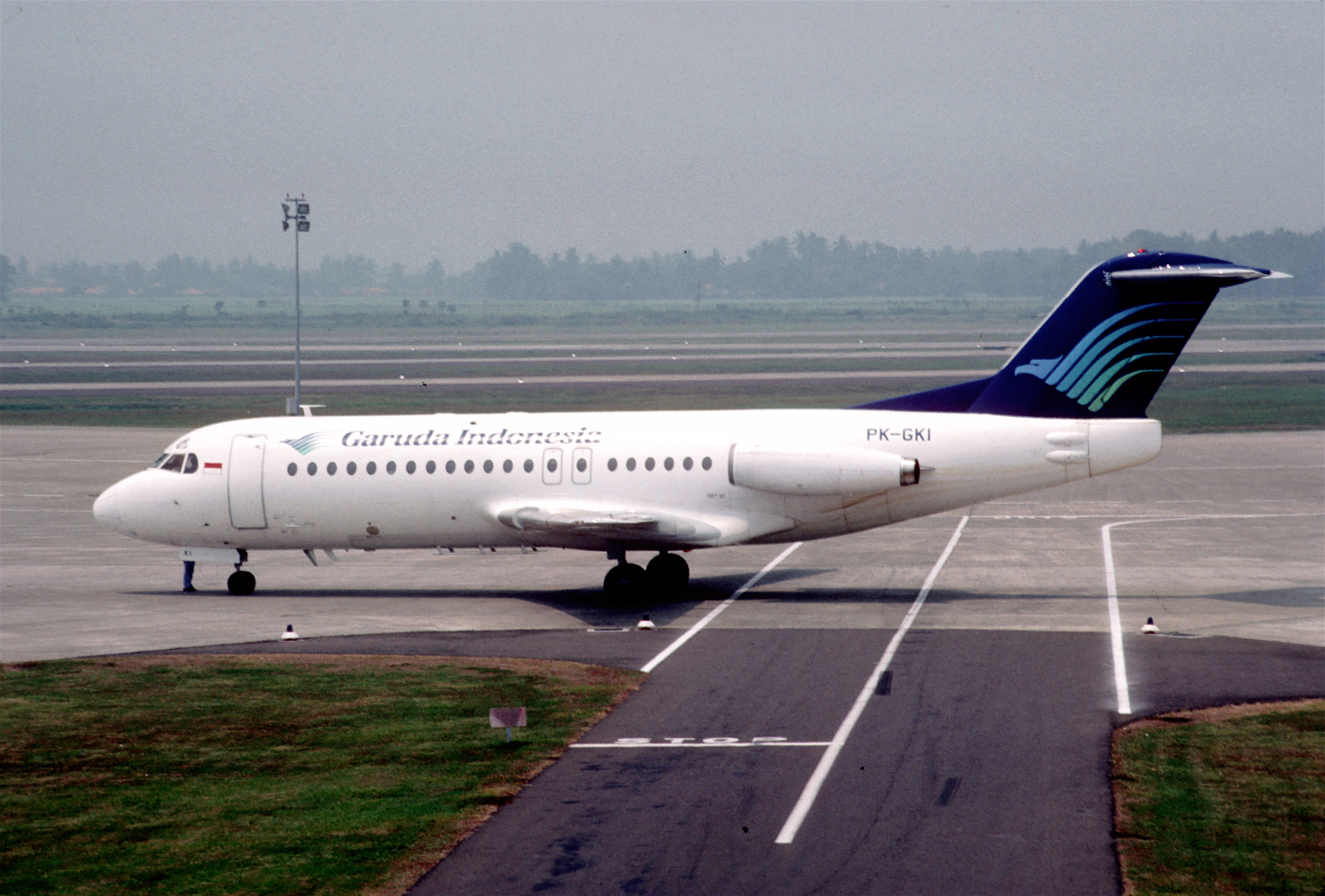 Garuda Indonesia Fokker F28 Fellowship 4000; PK-GKI, October 1989